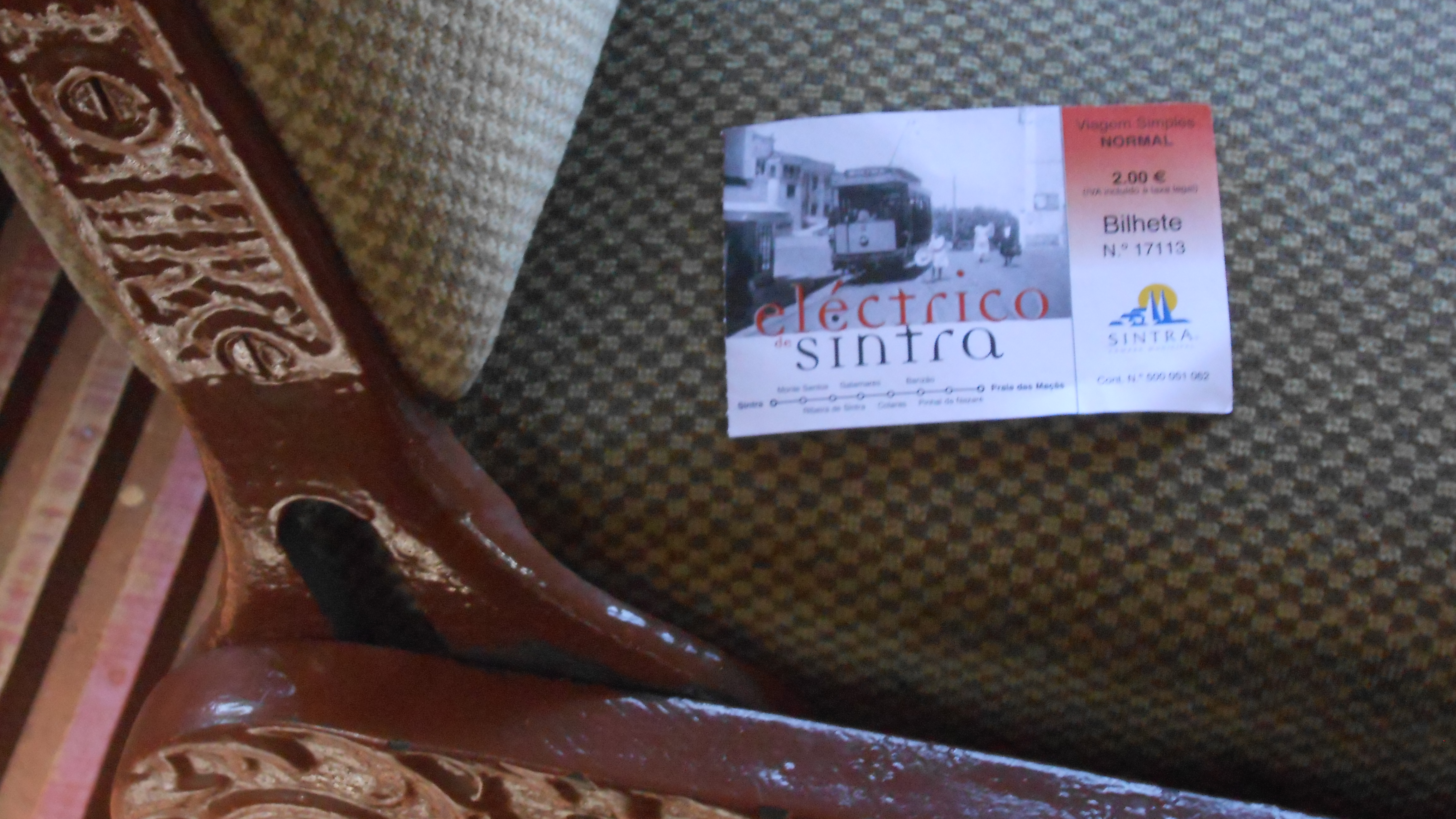 Ticket for the historic Sintra tram, march 2014.